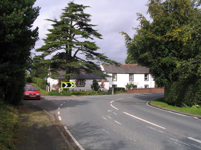 House at Islesteps and the Patrick Dudgeon Memorial Hall The hall is a community hall. Part of the obituary for Patrick Dudgeon, from the Dumfries & Galloway Standard & Advertiser, 13th February 1895, notes that he was ‘78 years old, savant and country gentleman; Widely known in scientific and antiquarian circles; Recognised authority in mineralogy; Published numerous papers on family and placenames in Galloway; Since 1867 Deputy Lieutenant of Kirkcudbright, and a magistrate in Kirkcudbright and Dumfries; He exercised a powerful influence in securing a diminution in the number of public houses; 40 years a trustee of Crichton local asylum; Established a circulating library at Cargen free to all residents in the vicinity.’